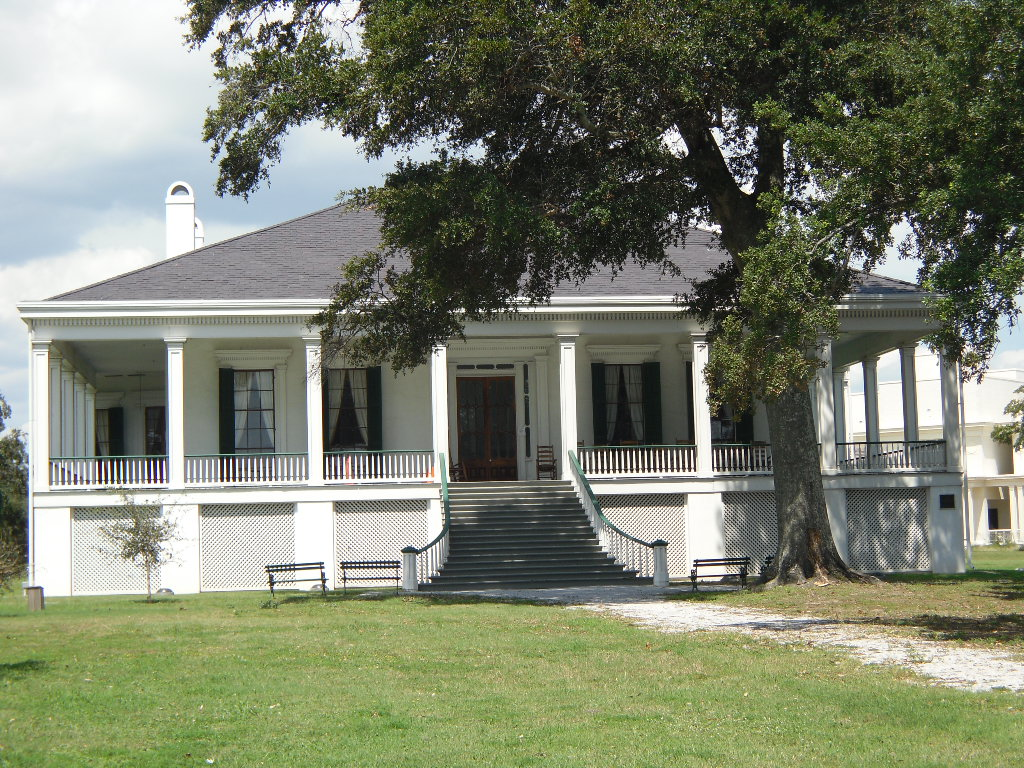 Beauvoir